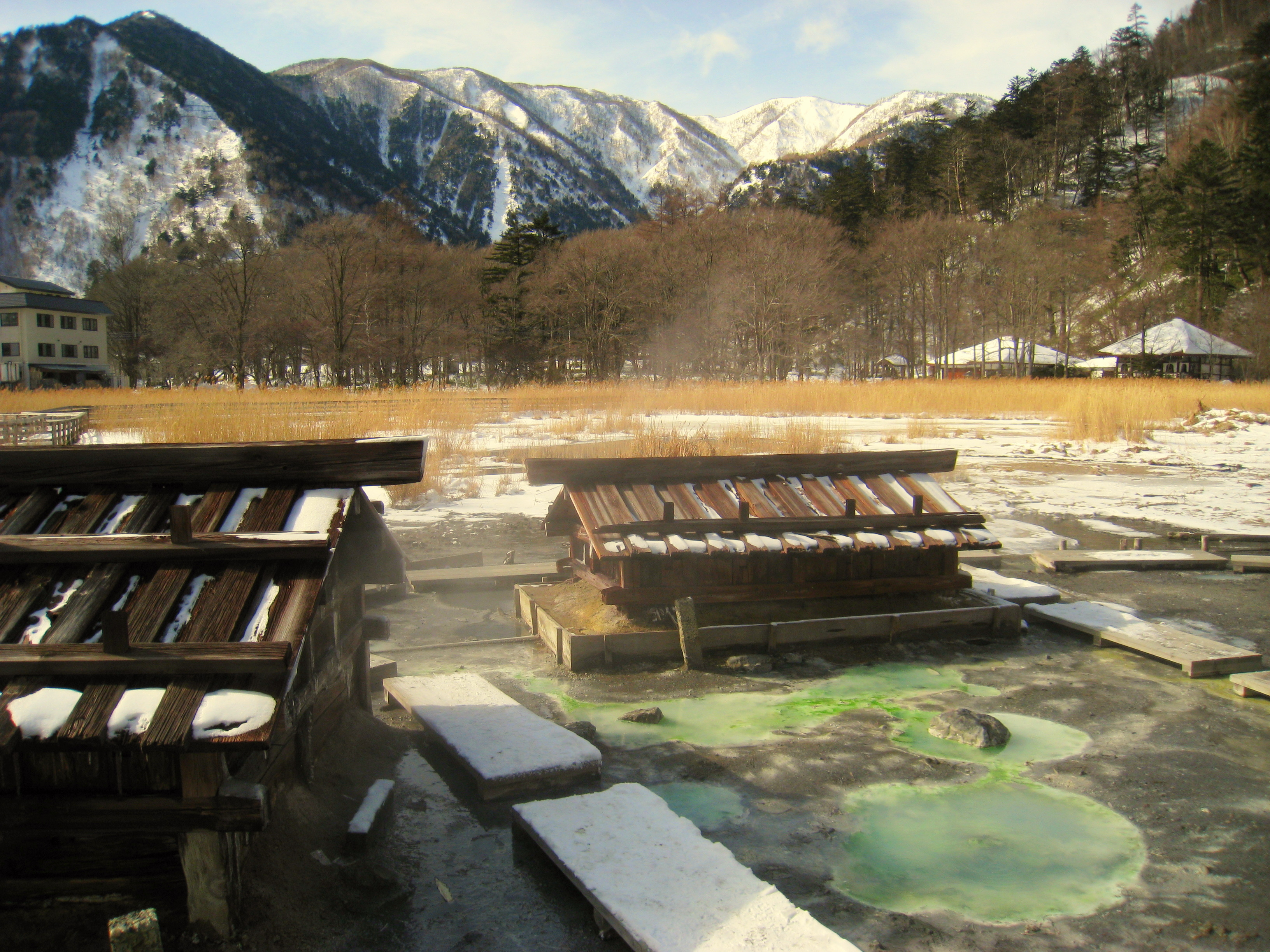 Thermal springs, Yumoto, Nikko National Park, Tochigi, Japan. Midwinter view.